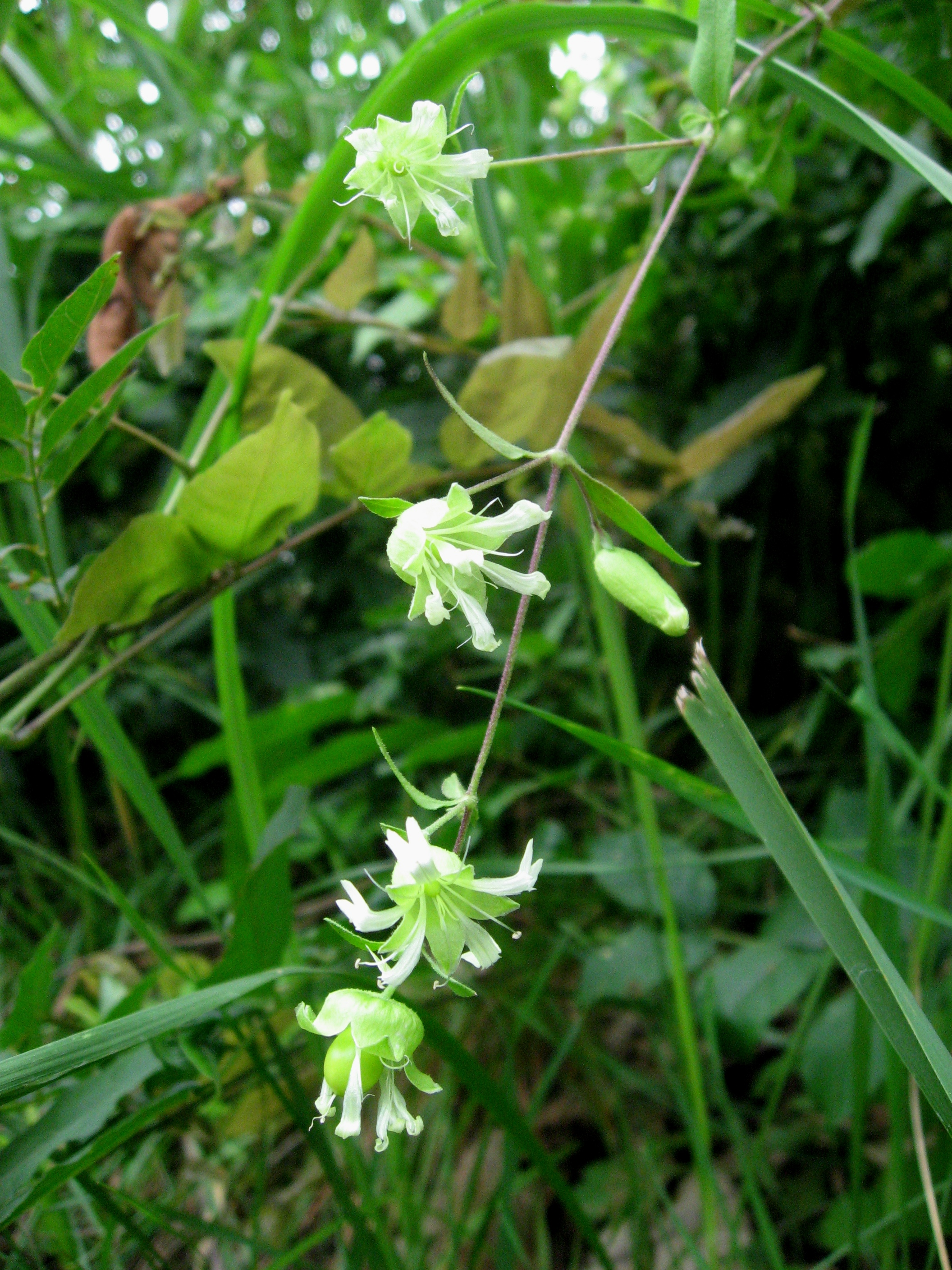 Cucubalus baccifer var. japonicus, Aizu area, Fukushima pref., Japan